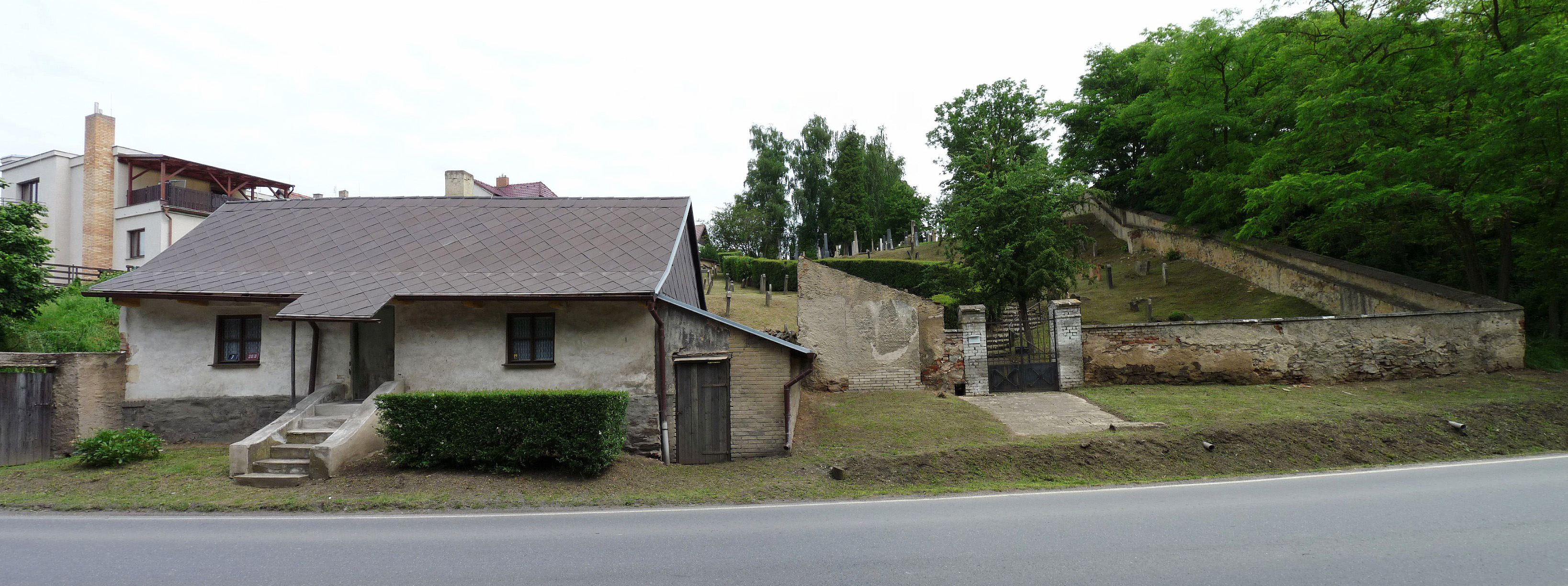 View of the Jewish cemetery in the town of Rakovník, Central Bohemian Region, Czech Republic.